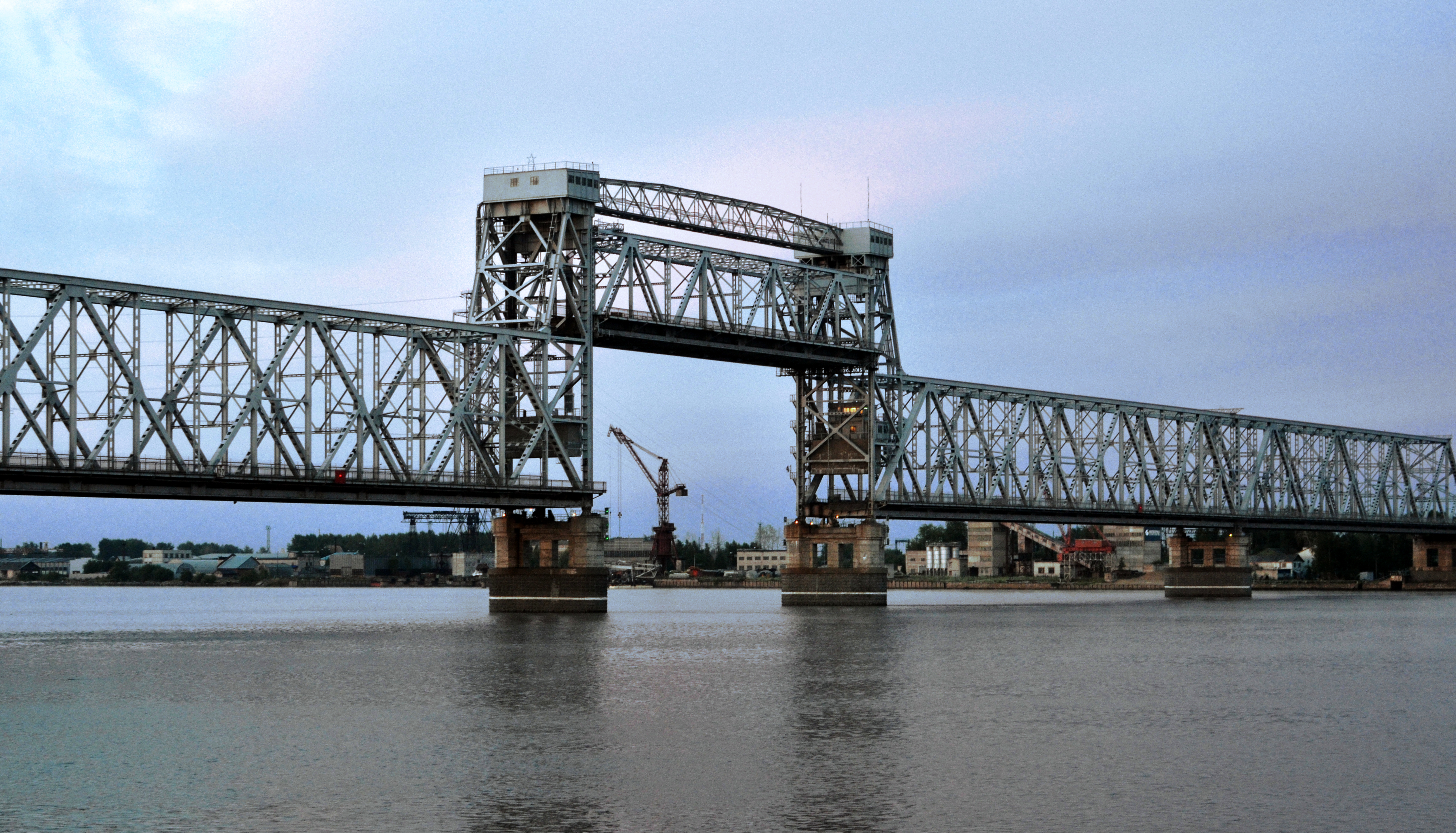 with a crane below it